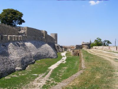 The Kalemegdan fortress in Belgrade (Serbia)